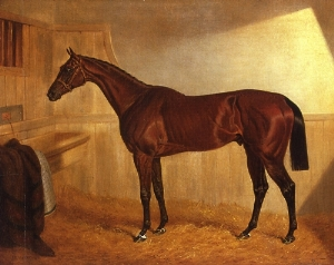 Bay Middleton (1833-17 November 1857) an undefeated Thoroughbred racehorse and important sire of racehorses.